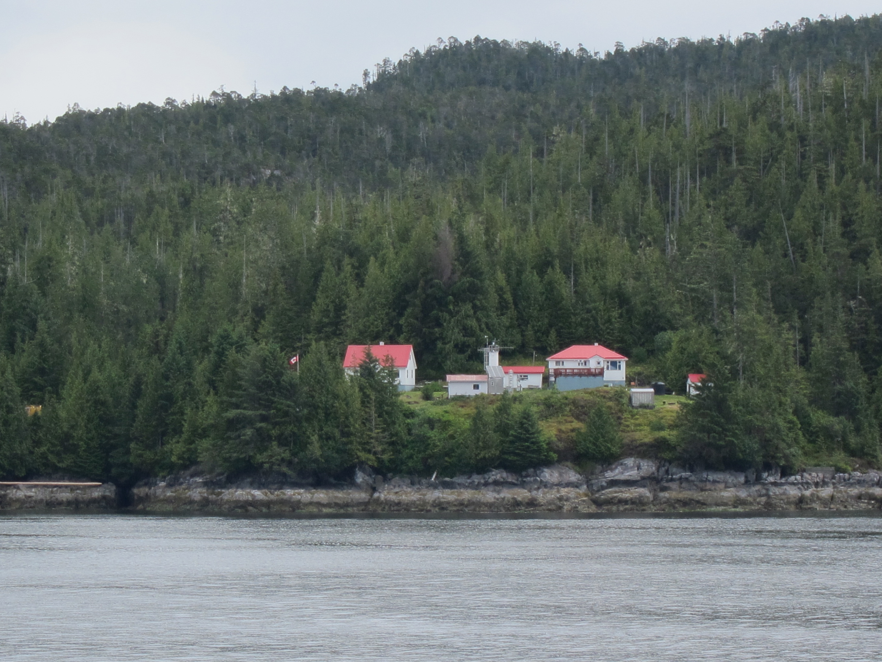 Lighthouse on Addenbroke Island, located in Fitz Hugh Sound, British Columbia Canada. Major marker on the Inside Passage